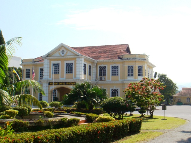 Darul Rizuan Museum, Ipoh, Perak, Malaysia